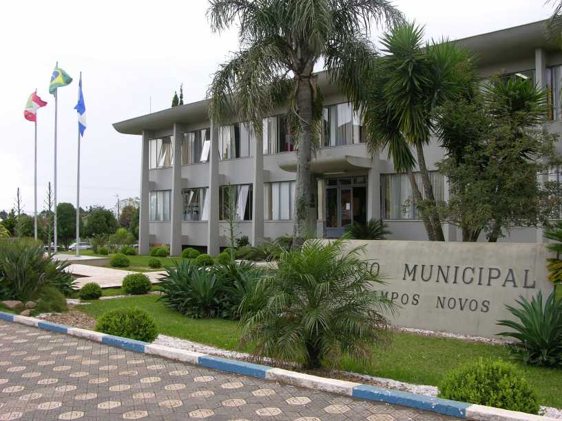 Camara Municipal de Campos Novos, SC